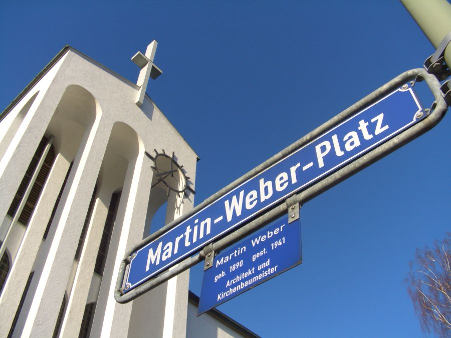 "Martin-Weber-Platz" in front of the Holy Cross Church in Frankfurt am Main-Bornheim